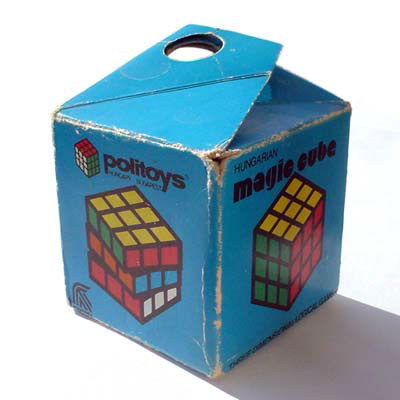 Original pack of Hungarian Magic Cube